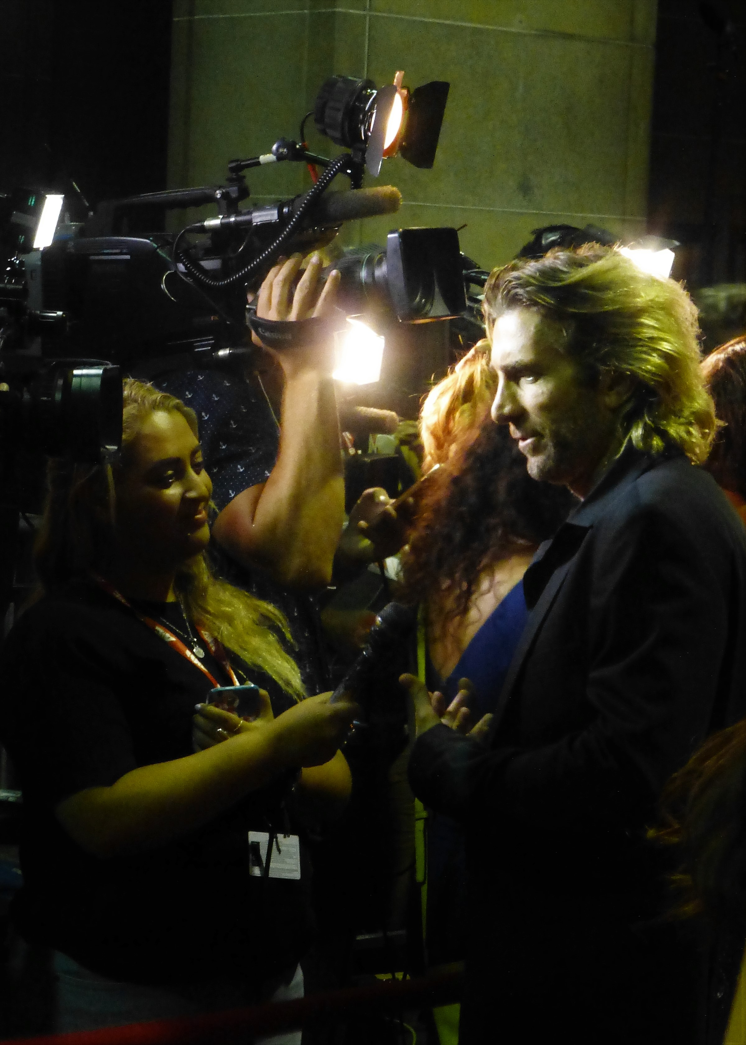 Look at that great hair. Sharlto Copley at the premiere of Free Fire, 2016 Toronto Film Festival